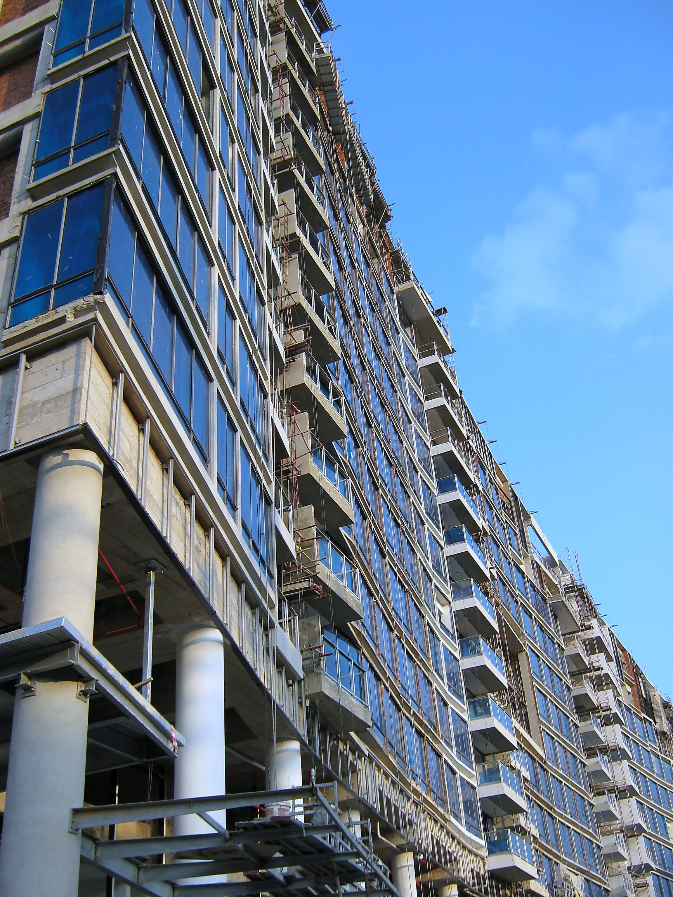 In Apr/May 2009, I took 15 days to walk all the way from Tokyo to Kyoto, roughly following the 546km long, ancient highway, the Nakasendo, alone. This picture was taken on one of the many training walks I did for the long solo walk in Singapore. Read about my preparations and my time in Japan at .